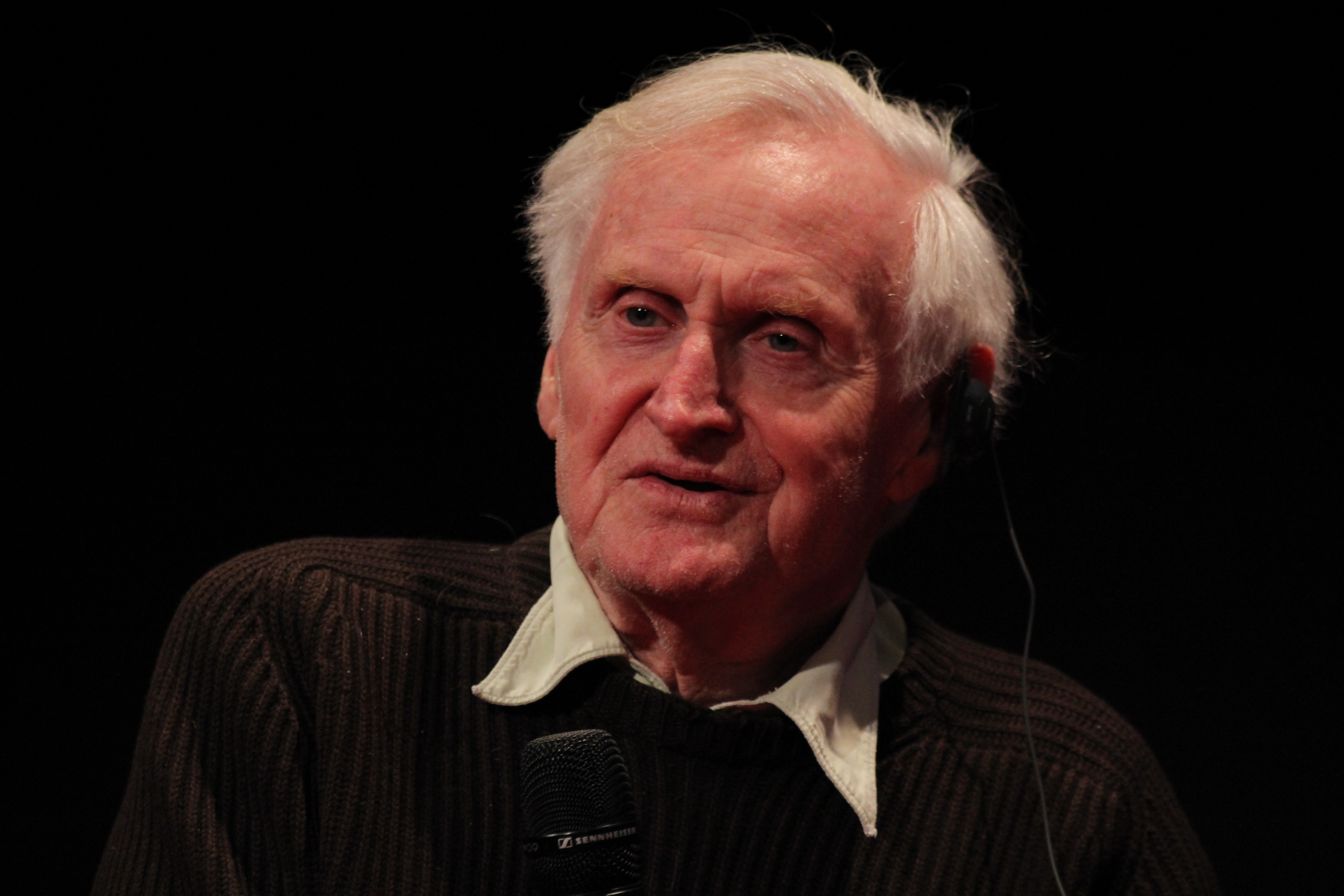 John Boorman. Picture taken November 28, 2014 during the John Boorman Master Class in Paris, France. Personality rights warning Although this work is freely licensed or in the public domain, the person(s) shown may have rights that legally restrict certain re-uses unless those depicted consent to such uses. In these cases, a model release or other evidence of consent could protect you from infringement claims.